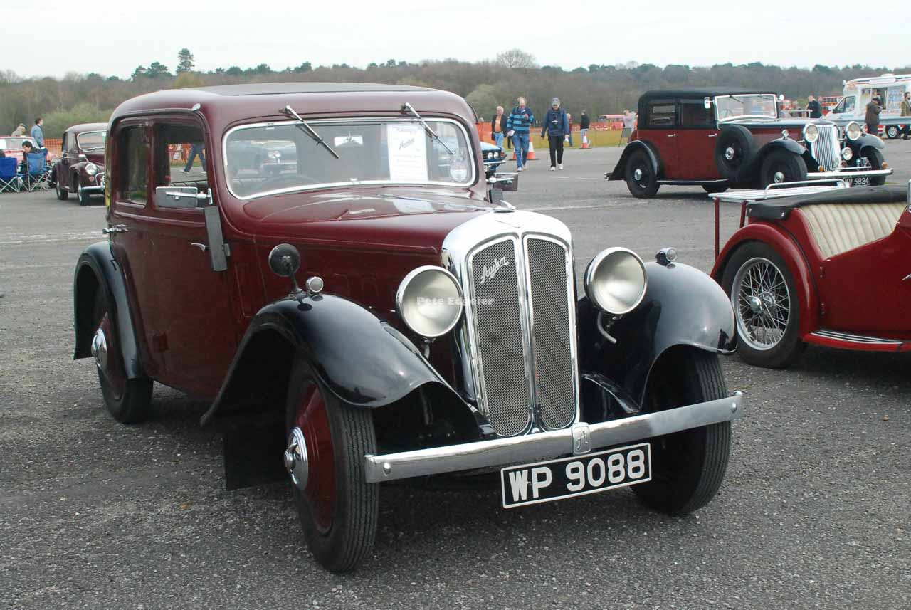 Pre WWII Austin Car (from DVLA) 1711cc (therefore a 12/6 straight six cylinder) manf. 1935. and apparently a four-light sports version Austin Light Twelve-Six Greyhound Kempton? Sports Saloon (claimed elsewhere) bodywork by Ambi-Budd of Germany.Ambi-Budd is German equivalent of Pressed Steel Co, both are joint ventures with Budd Corporation of Philadelphia USA